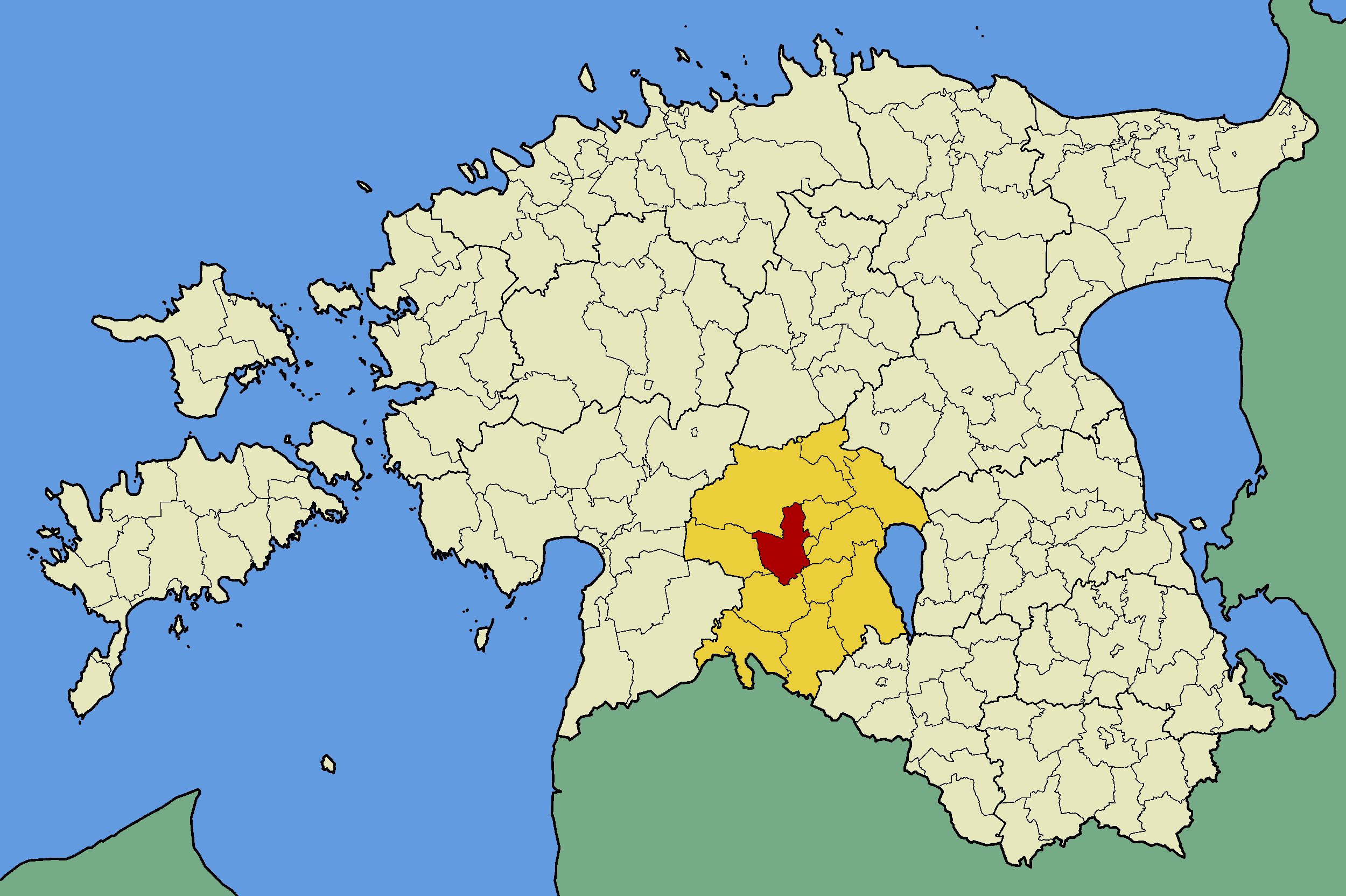 Map of Estonia with borders of municipalities (parishes). Viljandi county and Pärsti municipality emphasized.